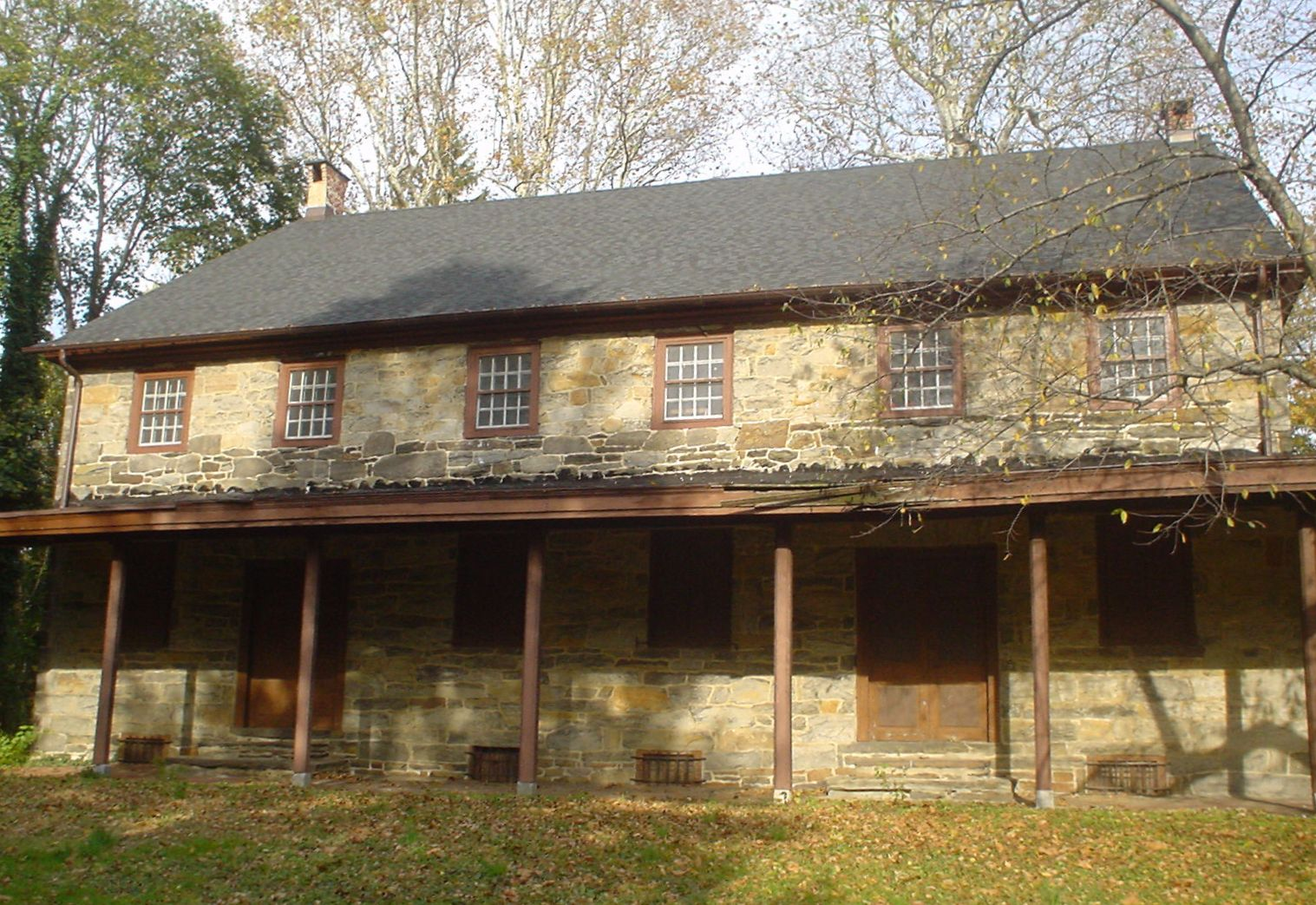 Darby Meetinghouse in Darby, PA for Friends (Quakers)1803? in NRHP. I took this photo myself and give it to the public domain.